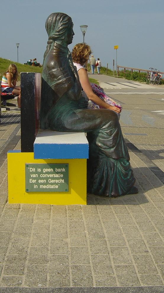 Modern statue of pre-Celtic fertility and mothergoddess Nehalennia, bronze, incorparated in the "Mondriaanbank" by Guido Metsers 1989, located Boulevard van Schagen Domburg, view towards the west